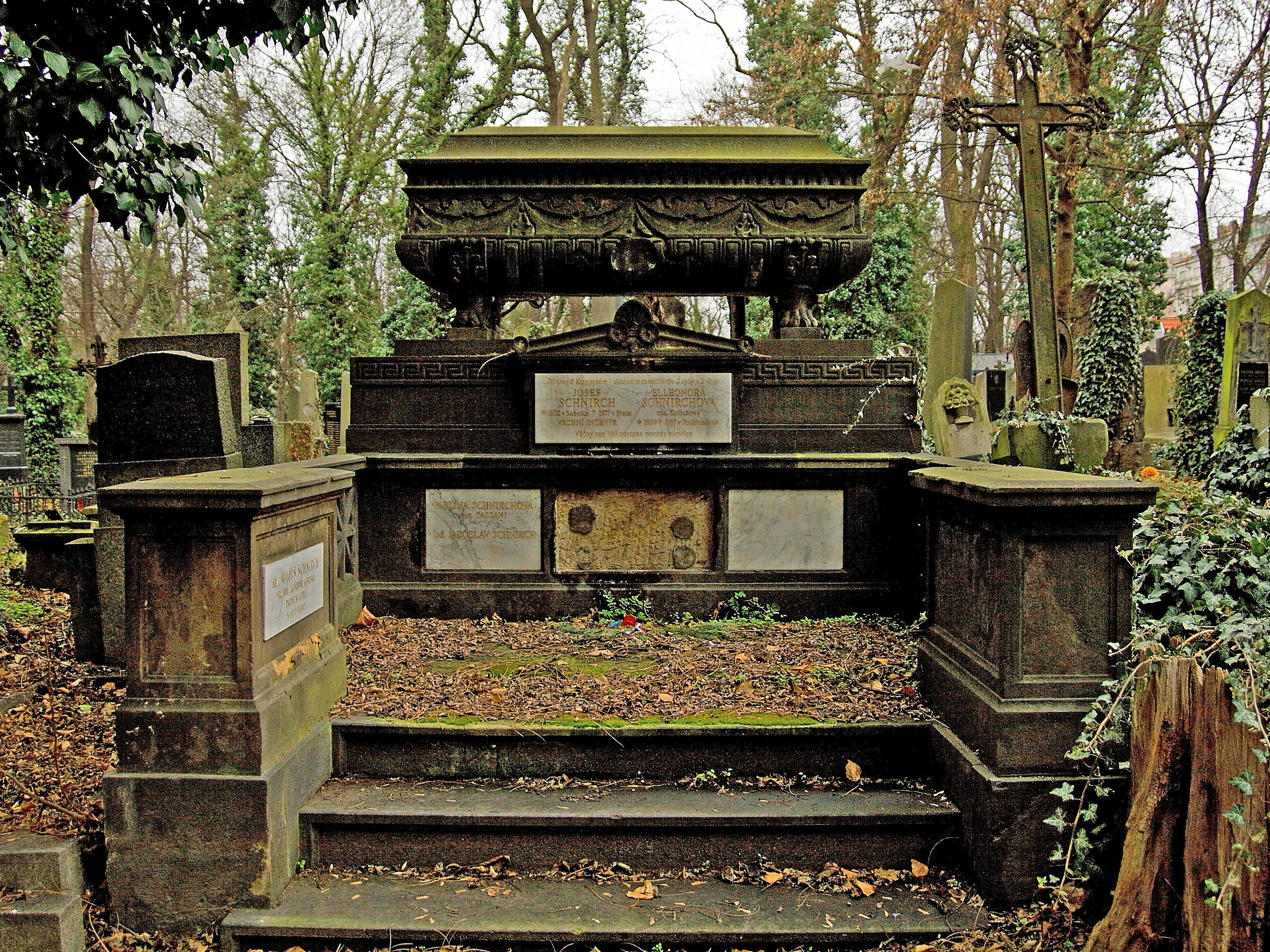 Olšanské hřbitovy Cemetery - Grave of Josef Schnirch